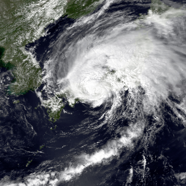 Tropical Storm Roger on August 27, 1989 with winds of 45 mph and a pressure of 975 mbar.